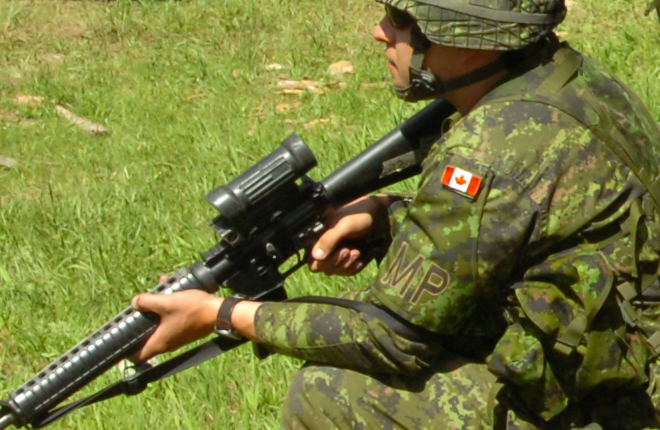 Canadian military police participate in the 24th annual Golden Coyote exercise in June. The exercise, hosted by the South Dakota National Guard, was held in the southern Black Hills of South Dakota. Canada was one of four foreign nations to train with the more than 4,000 U.S. servicemembers from 92 units representing 27 states. Training opportunities like this between the Guard and Canada are planned out at the Cross Border Working Group which was held at the Army National Guard Readiness Center, Arlington, Va., in December. South Dakota National Guard photo